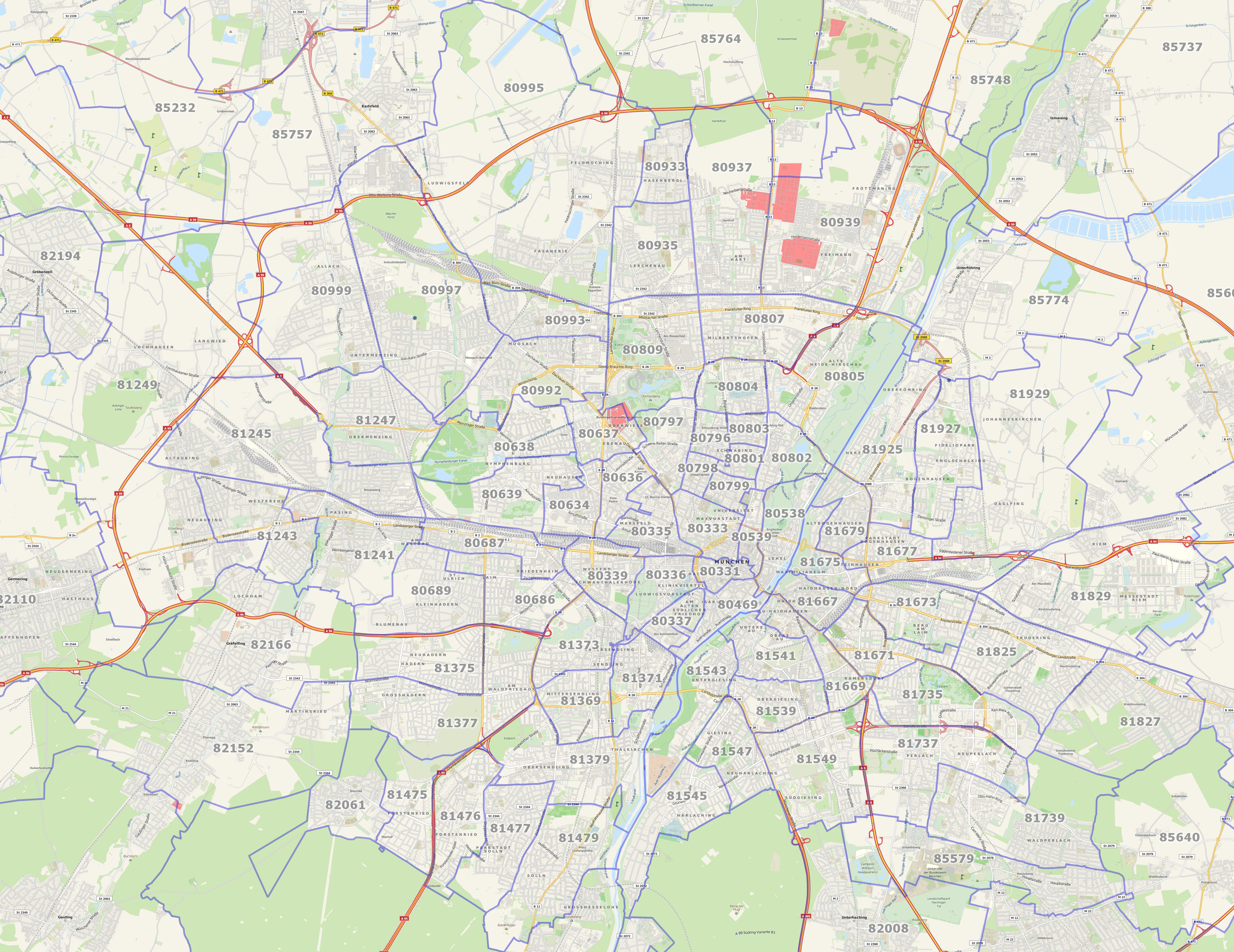 Postcode map of Munich (large scale)